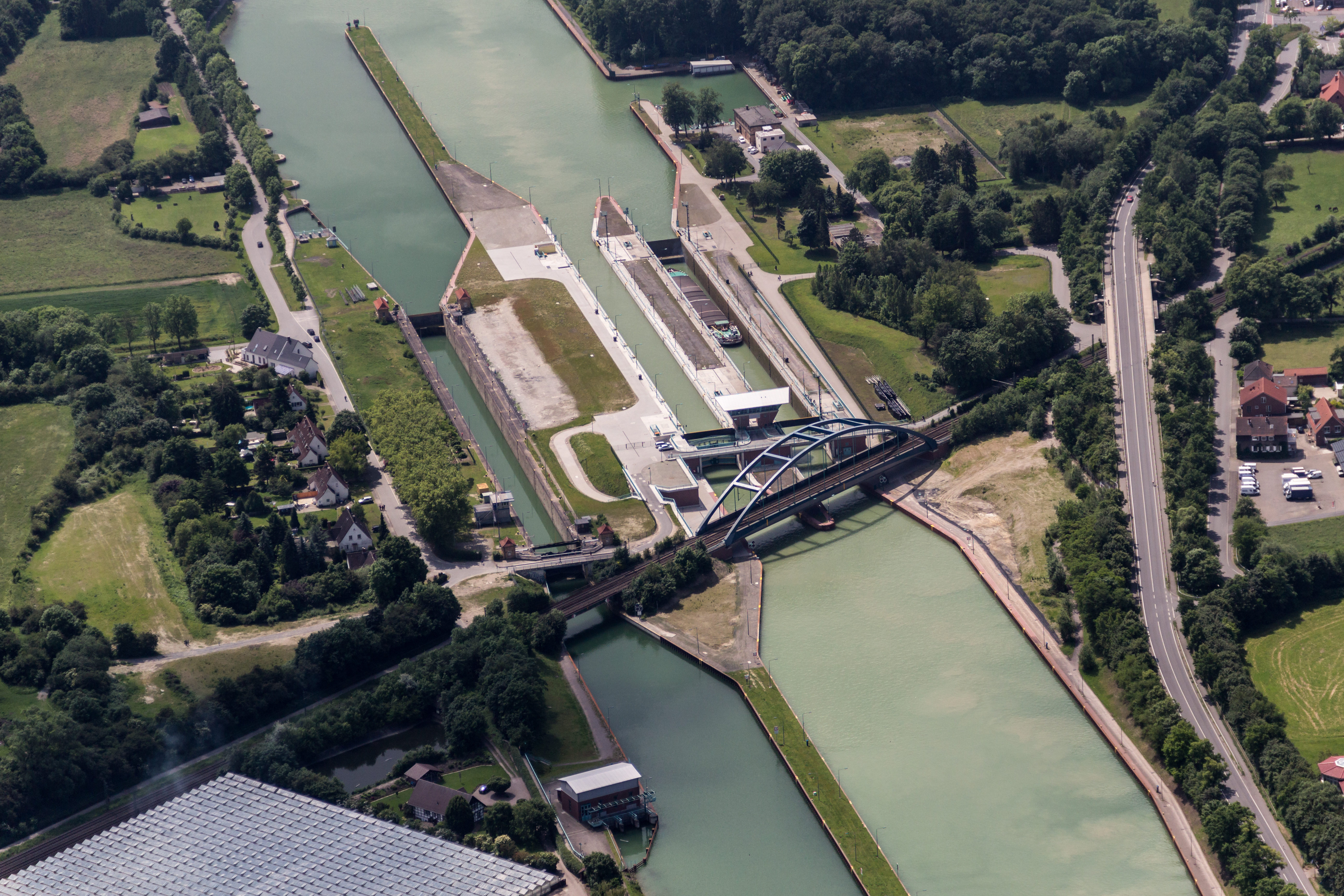 Dortmund–Ems Canal in Münster, North Rhine-Westphalia, Germany